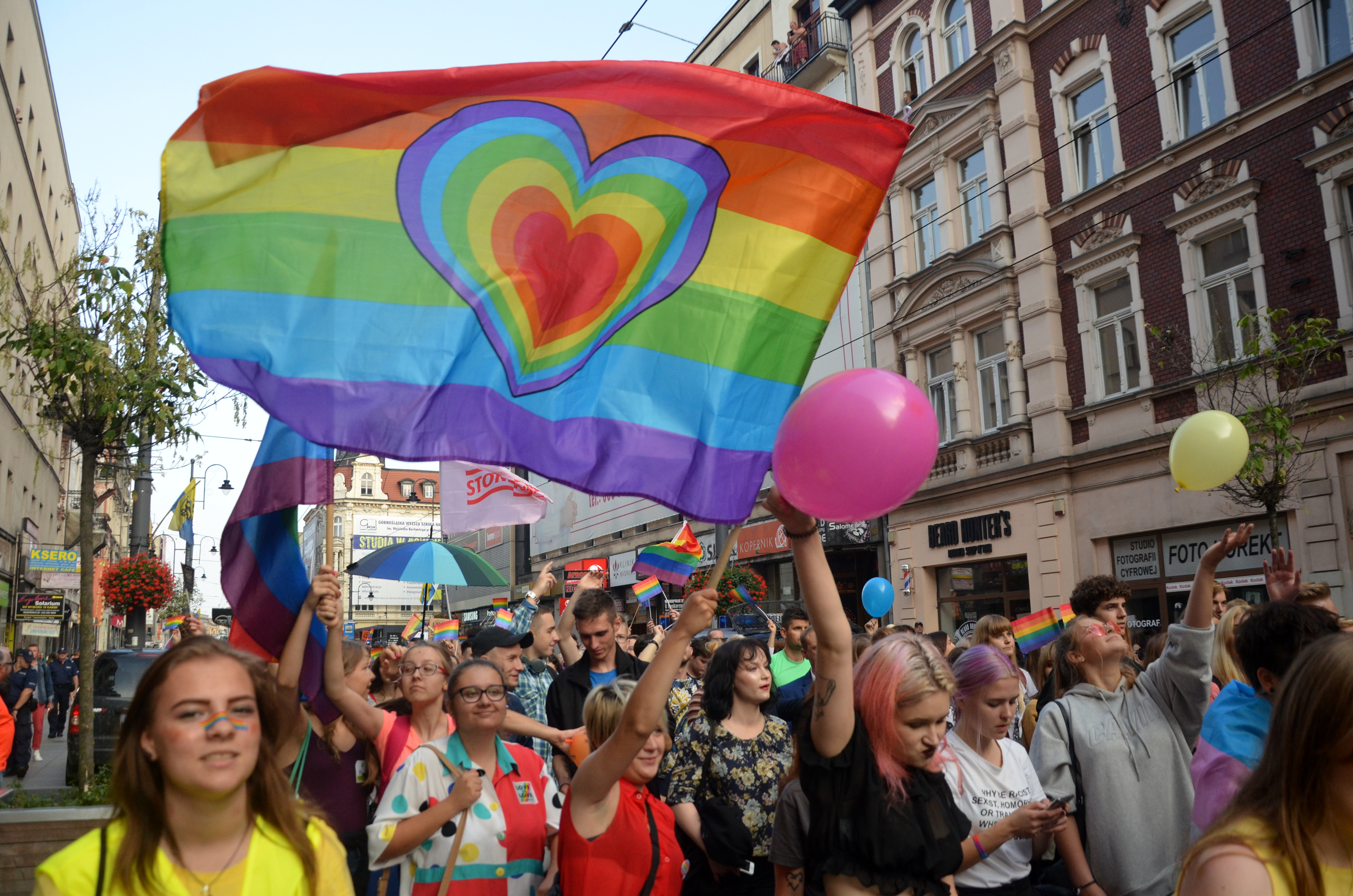 Equality March 2018 in Katowice